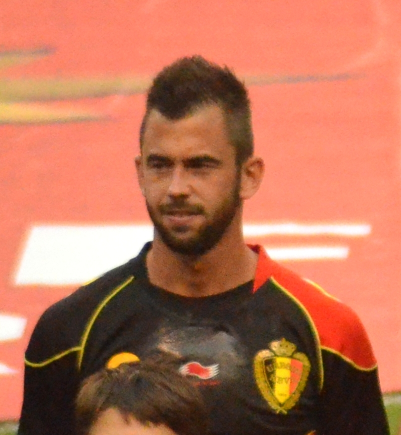 Steven Defour before an international friendly against the United States.